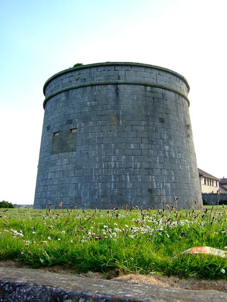 Martello Tower at Skerries, north County Dublin